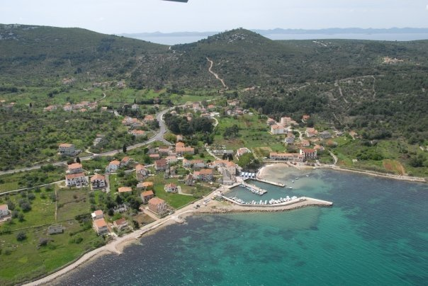 banj from the air(banj iz zraka)